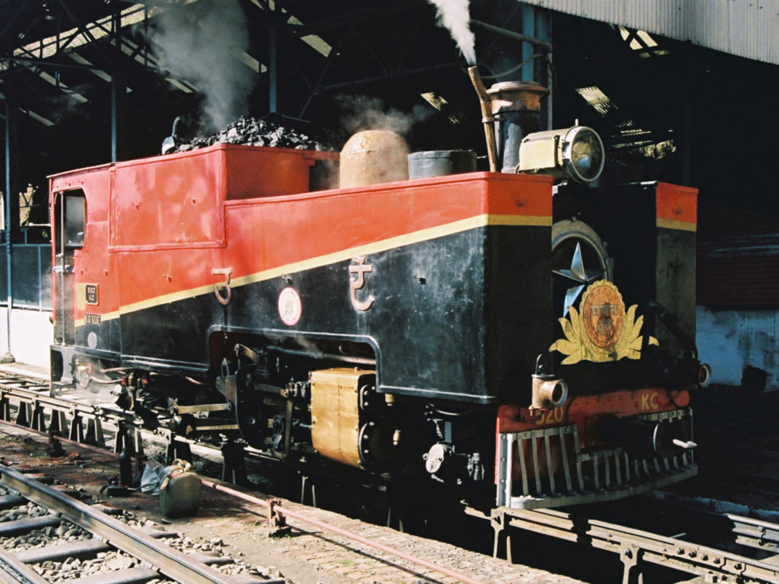 Kalka-Simla Railway. KC Class steam locomotive No.520 at Shimla Station. The locomotive was restored in 2001 and is used on special trains between Shimla and Kathleeghat. 13th February 2005 Photographer - A.M.Hurrell Camera - Minolta X700 (35mm film) Modified - Scanned by film developer. File size and definition changed using Adobe Photoshop 5.0LE